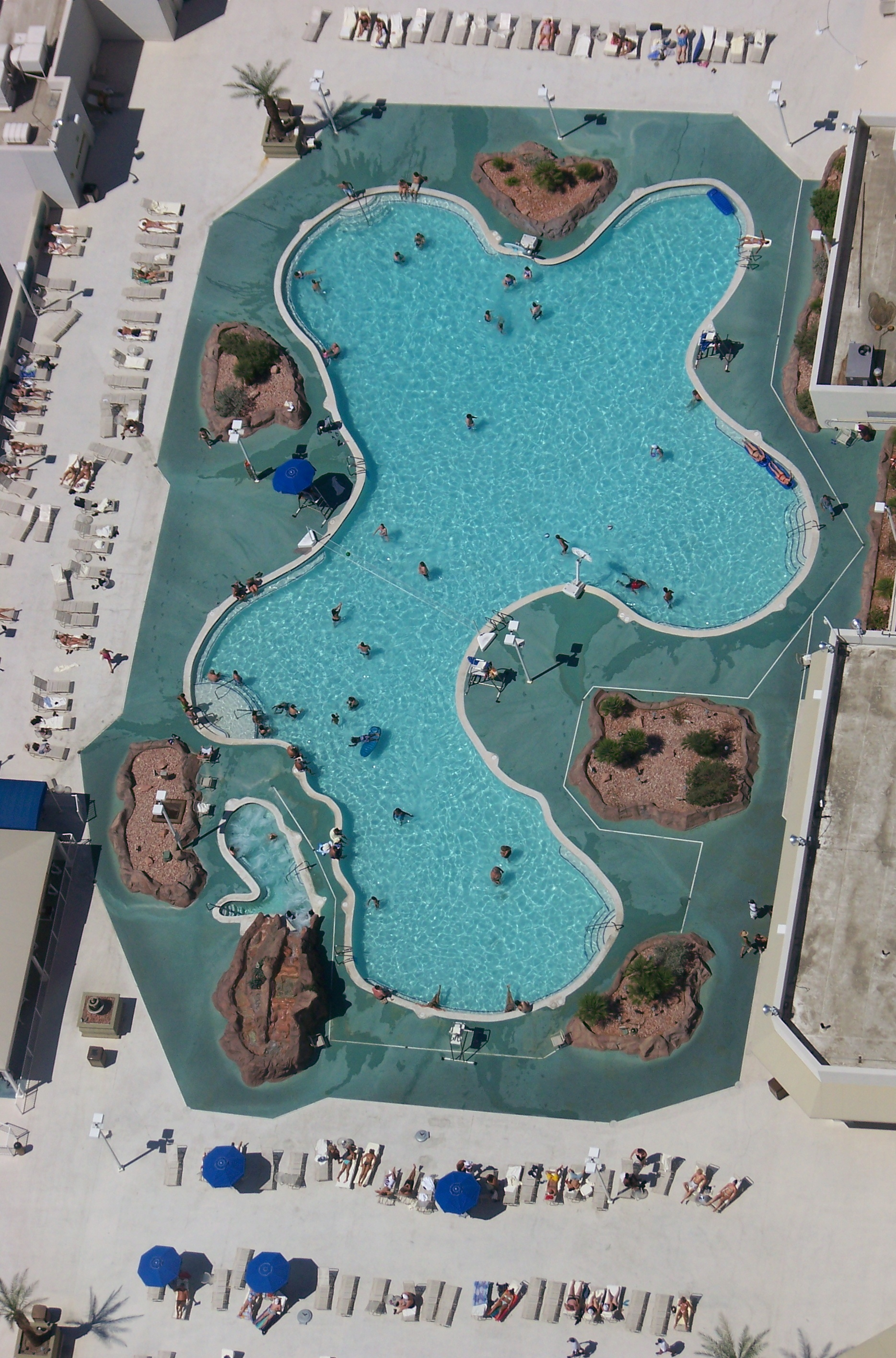 An above view of a roof-top swimming pool when looking down from the top of the Stratosphere in Las Vegas, NV.